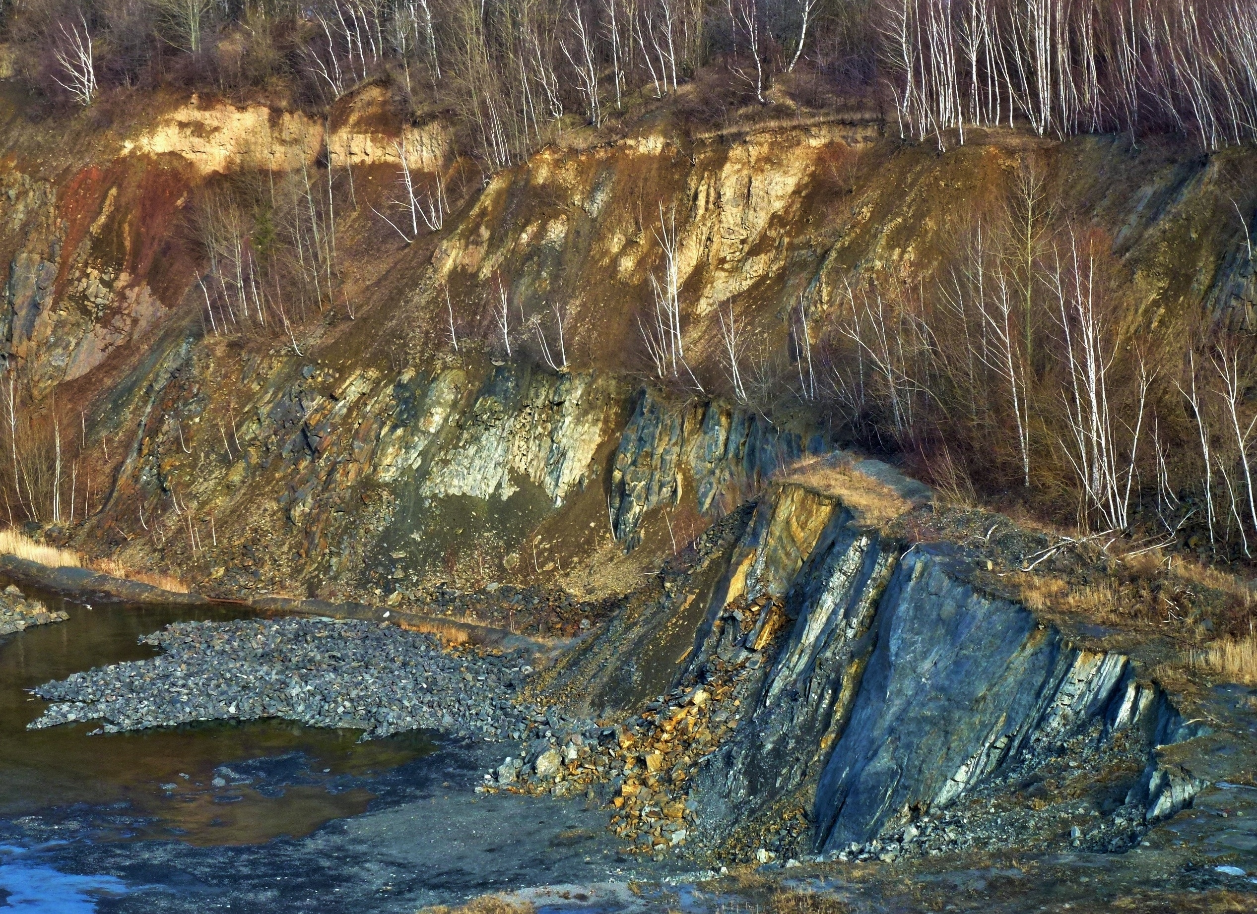 Stone Quarry Humperky in Skuteč. Photo location - Czechia, Pardubice Region, Skuteč town.